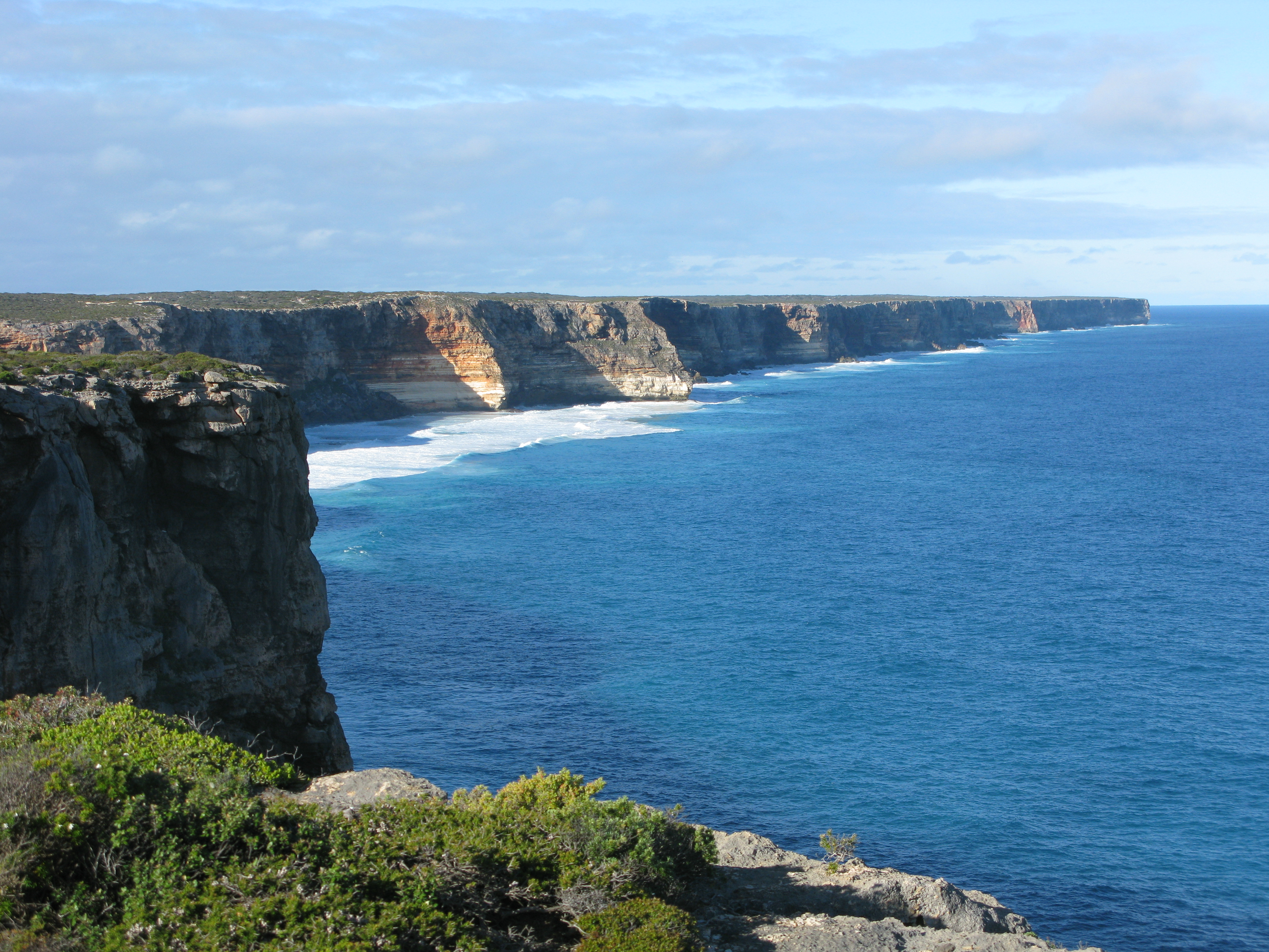 Author: Laurent MARSOL Source: made with my Canon camera on 14/09/2010 Comment: The Great Australian Bight at Toolina Cove, Nuytsland Nature Reserve, 2010.